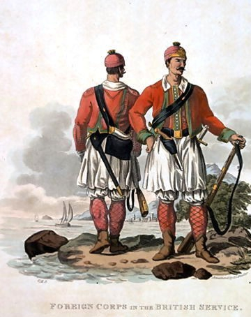 Foreign Corps in the British Service, Privates of the Greek Light Infantry Regiment, from Costumes of the Army of the British Empire, according to the last regulations 1812, engraved by J.C. Stadler, published by Colnaghi and Co. 1812-15